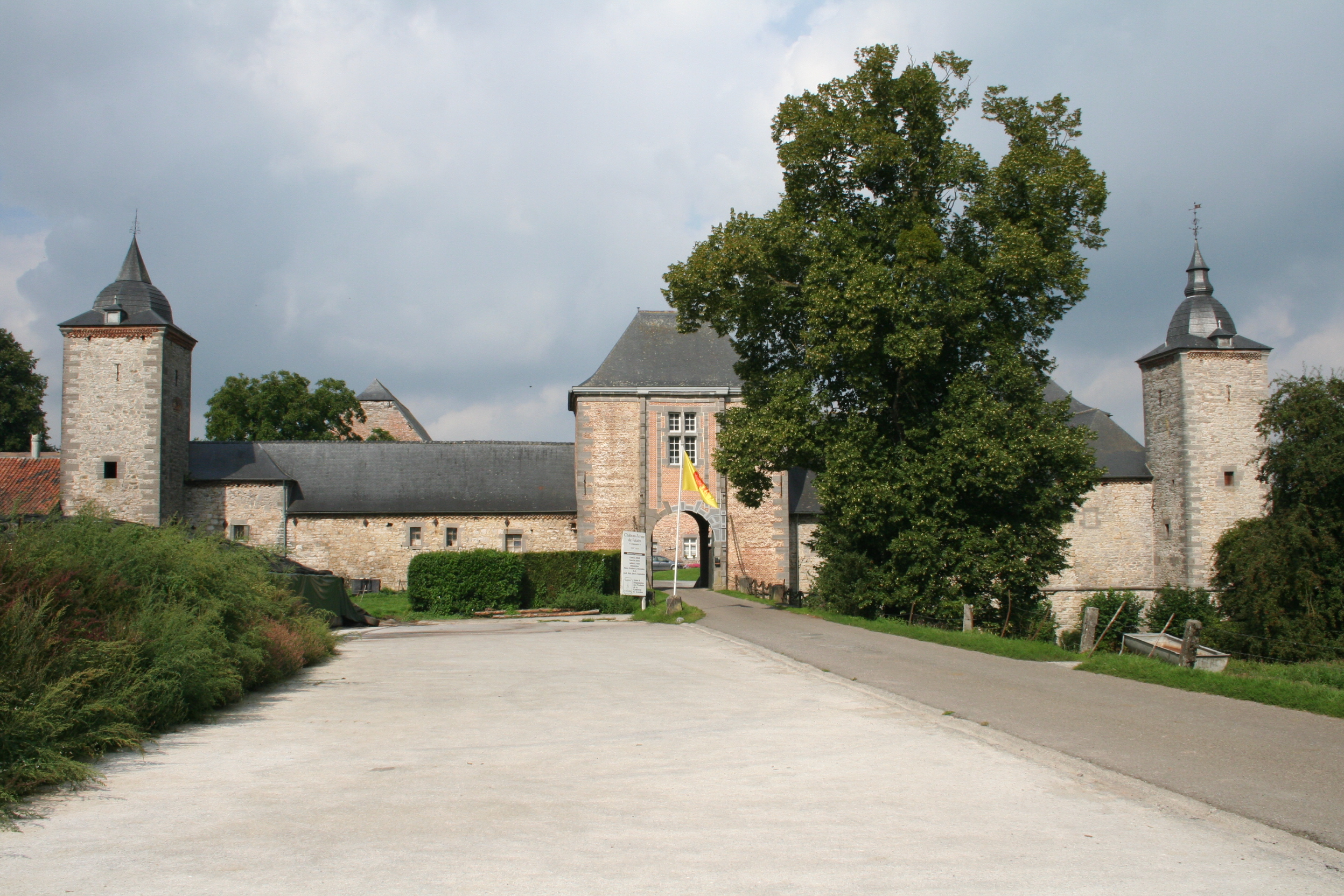 Falaën (Belgium), the castle-farm (XVIIth century).